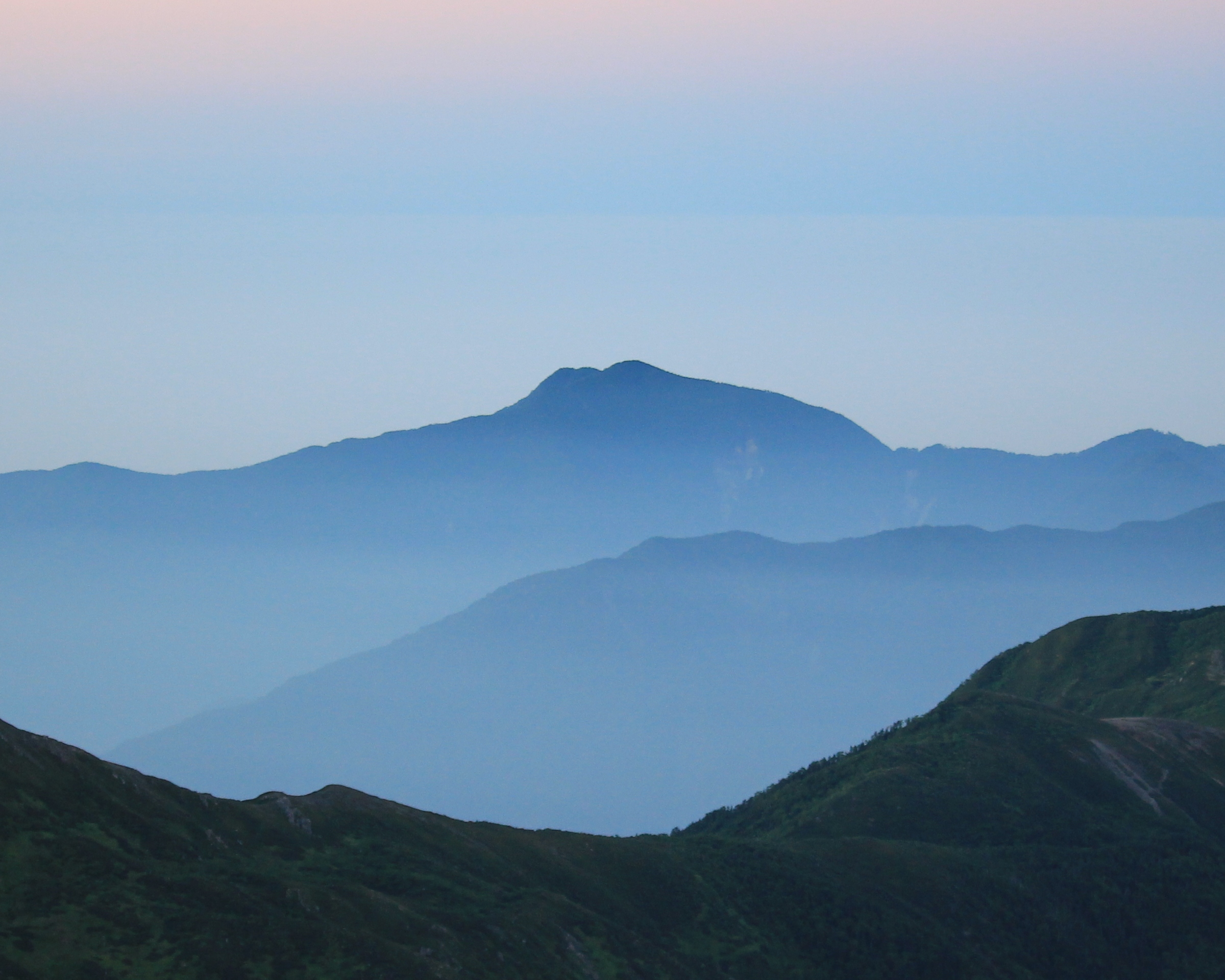 Mount Daimugen seen from Mount Hijiri, in Akaishi Mountains, Shizuoka prefecture, Japan.